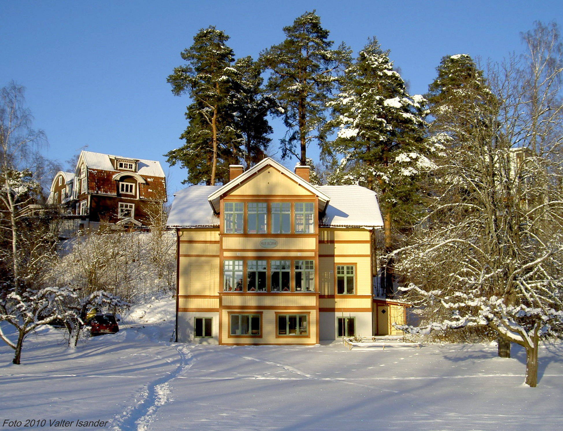 Villa Skönvik in Rönninge, Sweden. Photo Valter Isander